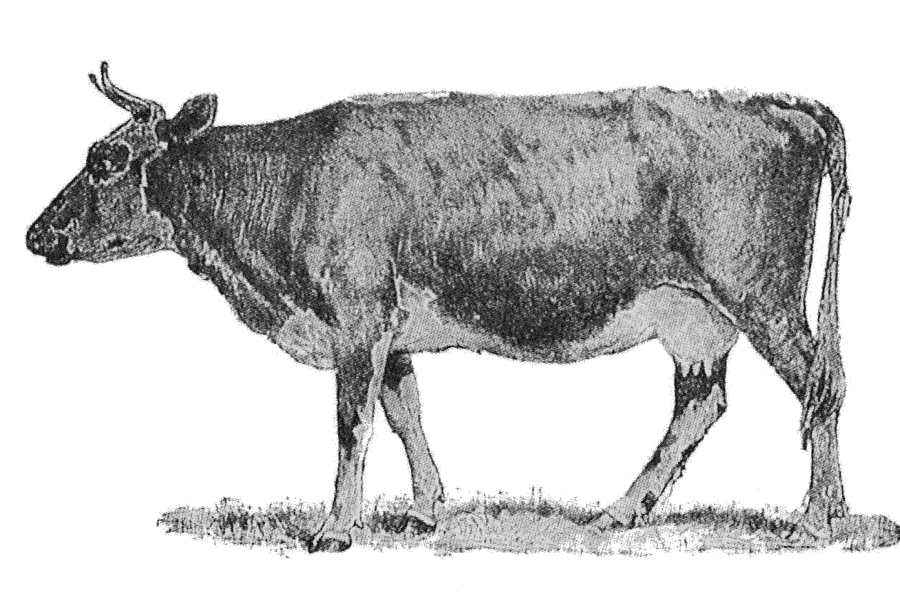 Illustration from Brockhaus and Efron Encyclopedic Dictionary(1890—1907)